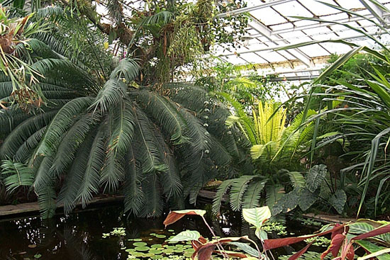 Botanical Garden Košice